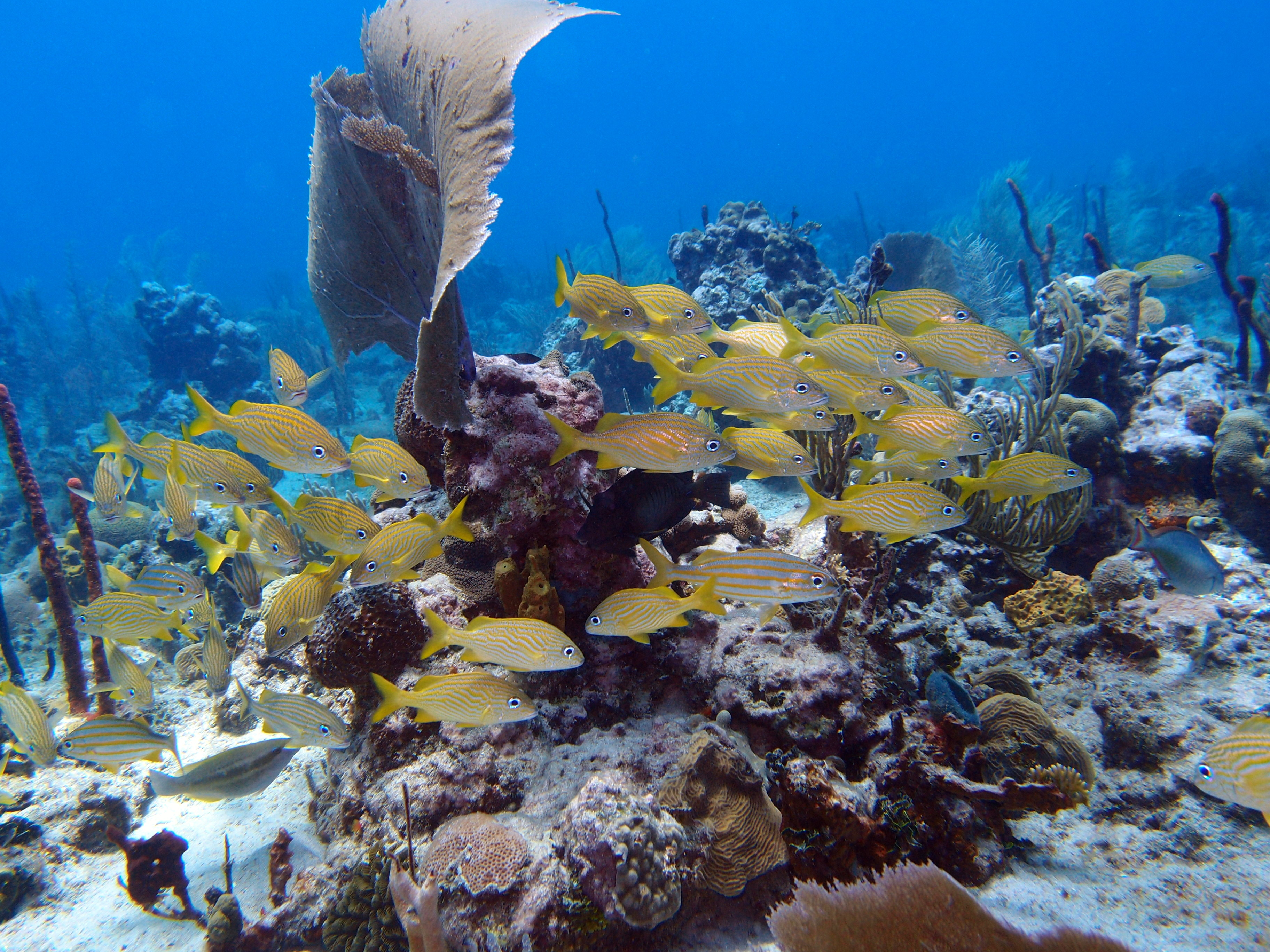 Underwater Coral Reef and School of Yellow Jack Fish at Aquarium Reef at Catalina Island. Photo taken during the Catalina island excursion with SeaPro Divers.